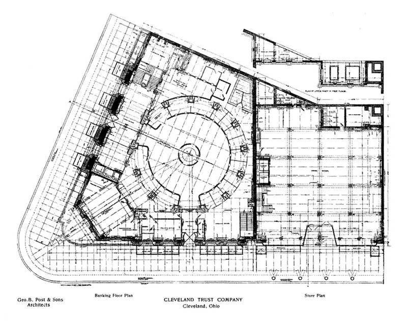 Architectural plan for the first (ground) floor of the Cleveland Trust Company Building in Cleveland, Ohio, in the United States. This blueprint was by George B. Post & Sons in 1906.